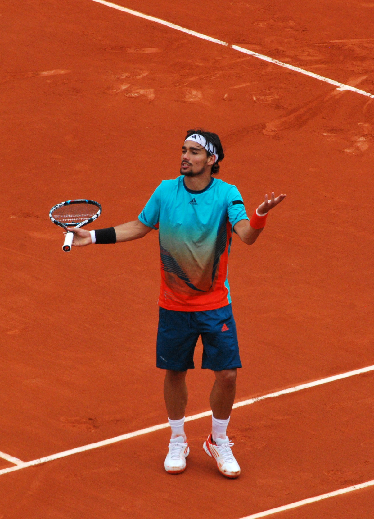 Fabio Fognini during his 3rd round match with Jo-Wilfried Tsonga. Tsonga won 7-5, 6-4, 6-4. Day 6 of Roland Garros 2012.